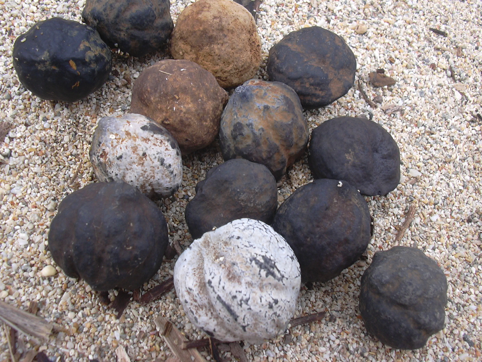 Aleurites moluccana (beach flotsam). Location: Maui, Kanaha Beach